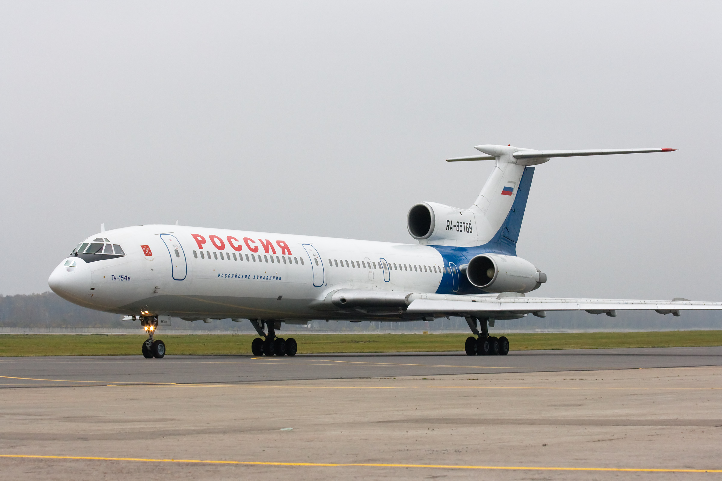 Rossiya Tu-154